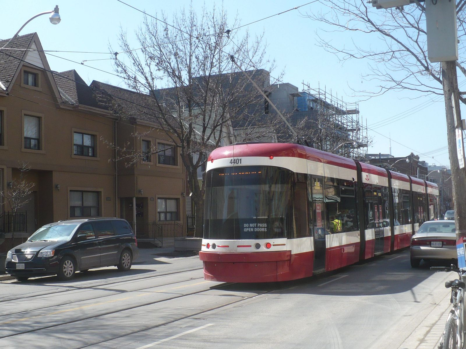 TTC Bombardier light rail vehicle number 4401 being tested, going west on Queen Street East at Pape Avenue in Toronto